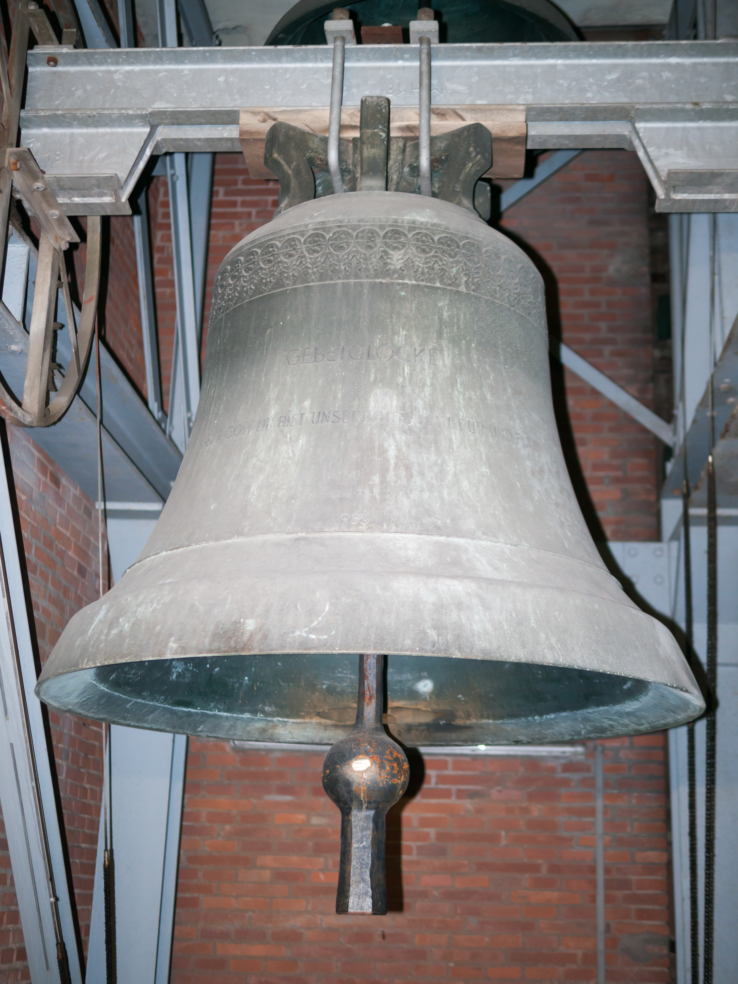 Reformations-Gedächtnis-Kirche